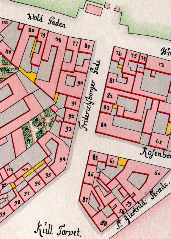 Frederiksborggade in Copenhagen, Denmark viewed on Gedde's district map of Copenhagen